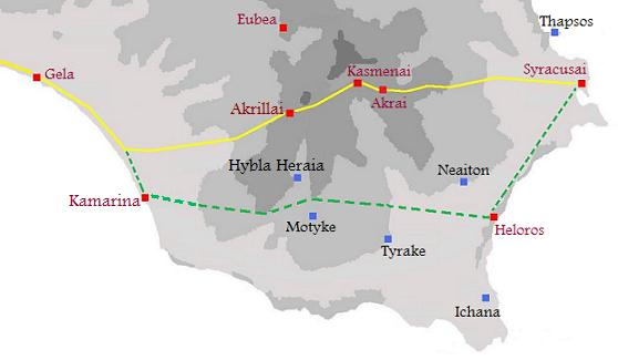 Map of south-east SicilyEuskara: Siziliako hego-ekialdeko hiriak K.a. V. mendean